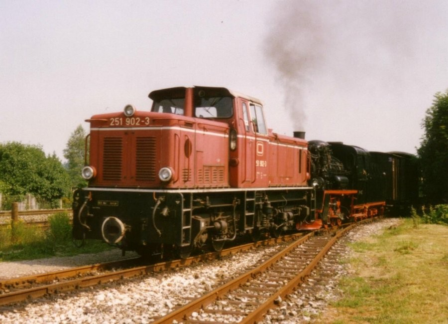 251 902-3 arrive Station Warthausen